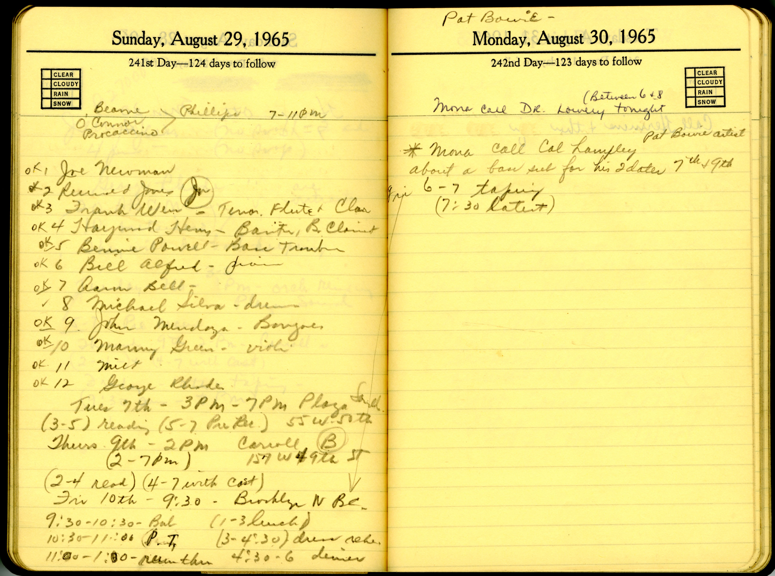 Mona Hinton's datebook from August 1965